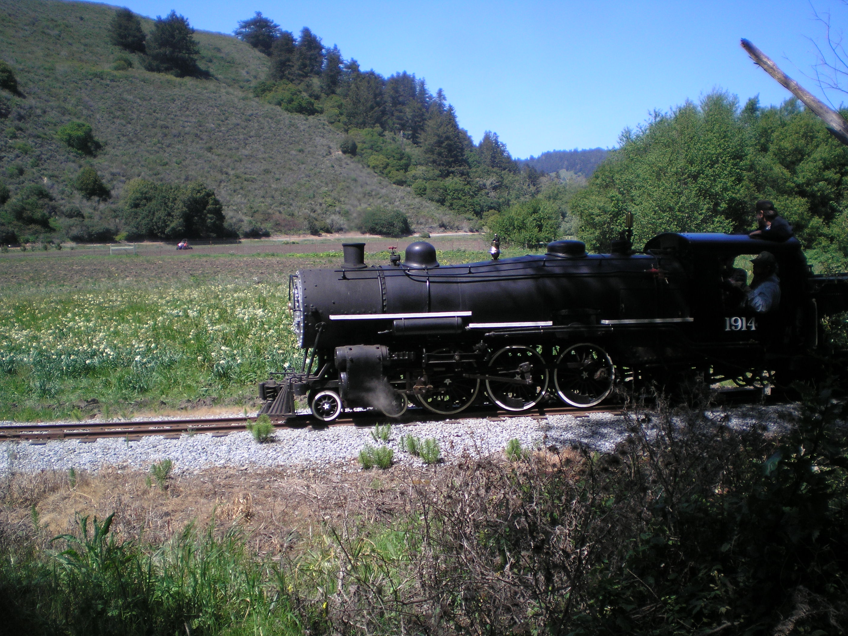 This picture was taken by myself (Jesse Golden) at Swanton Pacific Ranch.